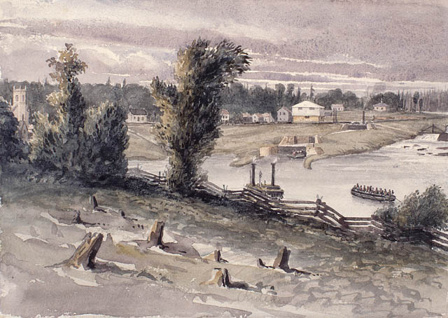 Merrickville, Rideau River, watercolour with scraping out over pencil on wove paper, 22.200 x 15.400 cm